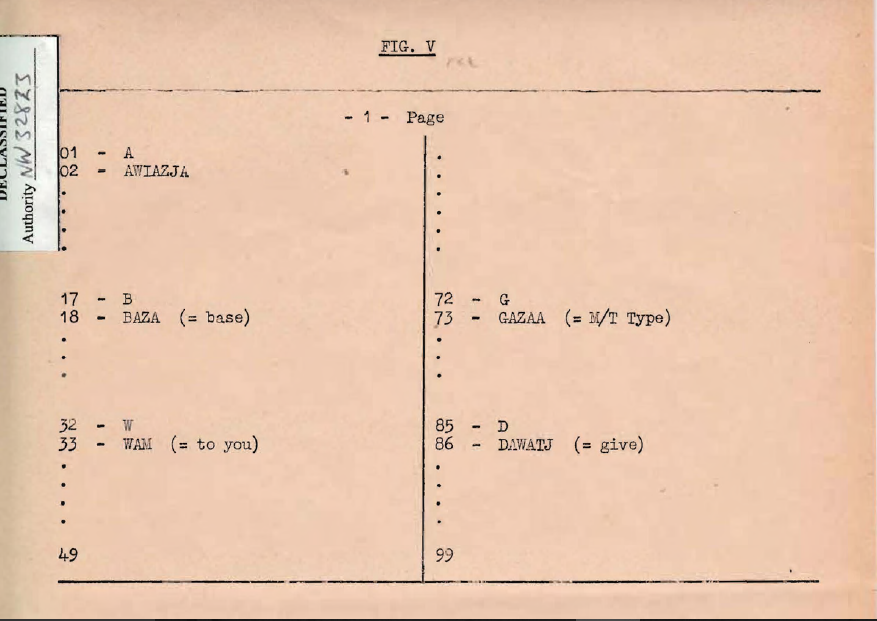 Figure V of TICOM document I-19d Report on Interrogation of KONA 1 at Revin, France, June 1945. Image is of 3-Figure Alphabetic code book. Other information Image is printer on Orange Blotter paper. All TICOM documents are in the public domain, and this has already been decided by Dianna.